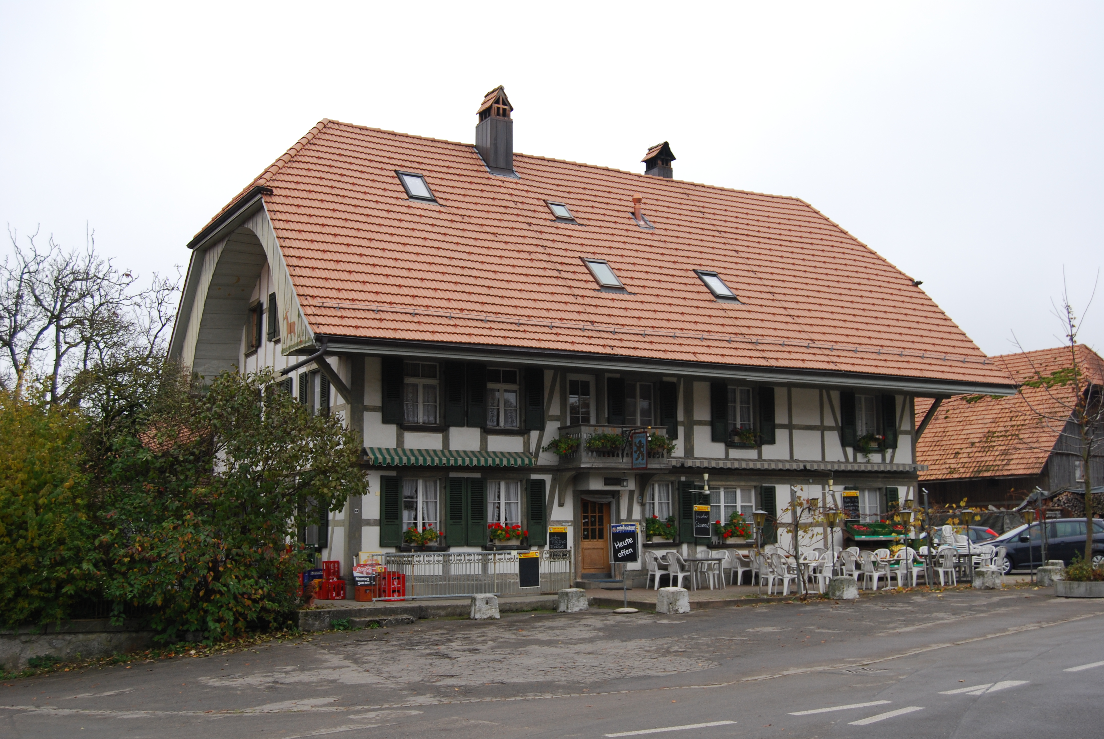 Restaurant Löwen, Bangerten, canton of Bern, Switzerland